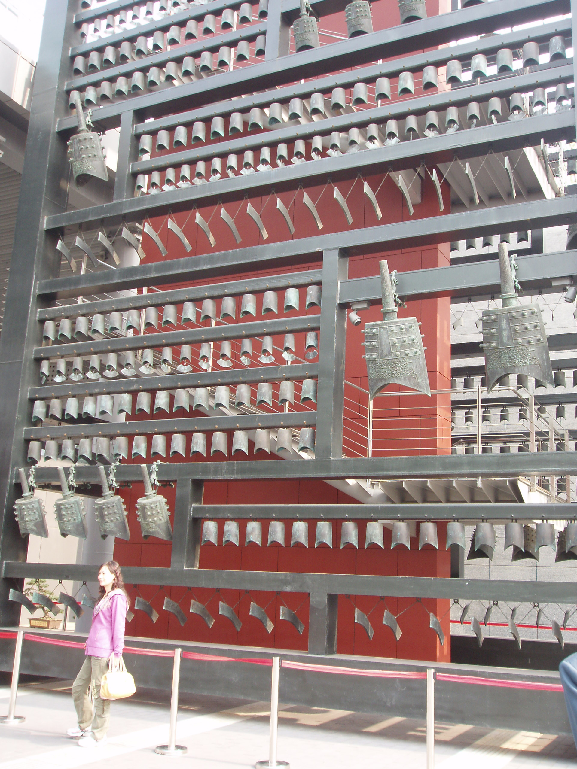 The decoration along the street of Beijing.